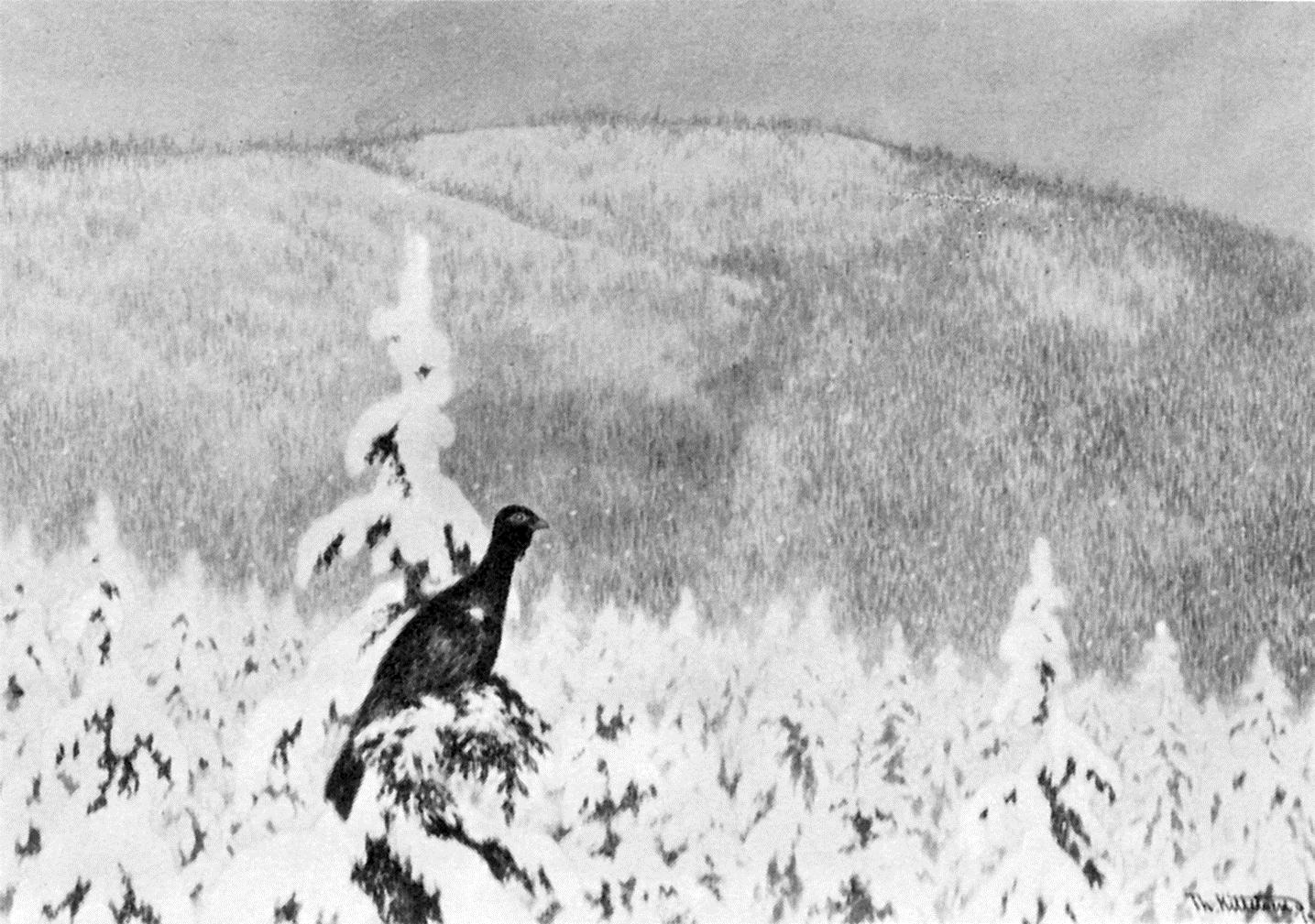 Theodor Kittelsen (1857 – 1914) Black and white sketches